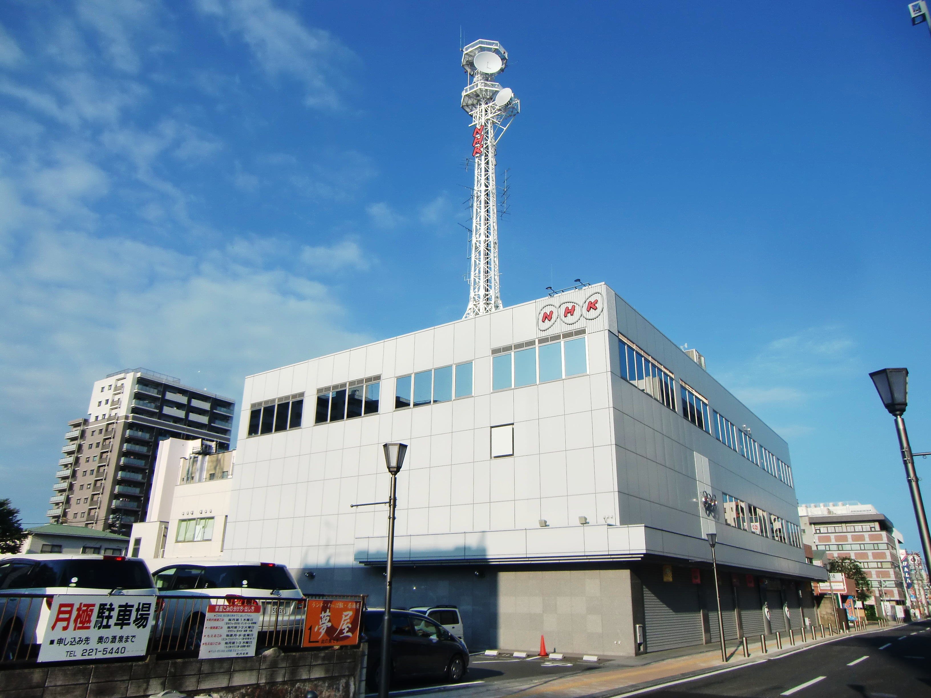 NHK Mito broadcasting station, Ōmachi 3-chōme, Mito city, Ibaraki prefecture, Japan.